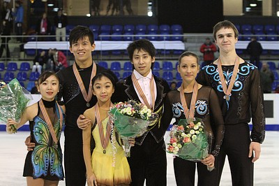 Narumi Takahashi / Mervin Tran (2), Sui Wenjing / Han Cong (1), Ksenia Stolbova / Fedor Klimov (3) at the 2010 World Junior Figure Skating Championships